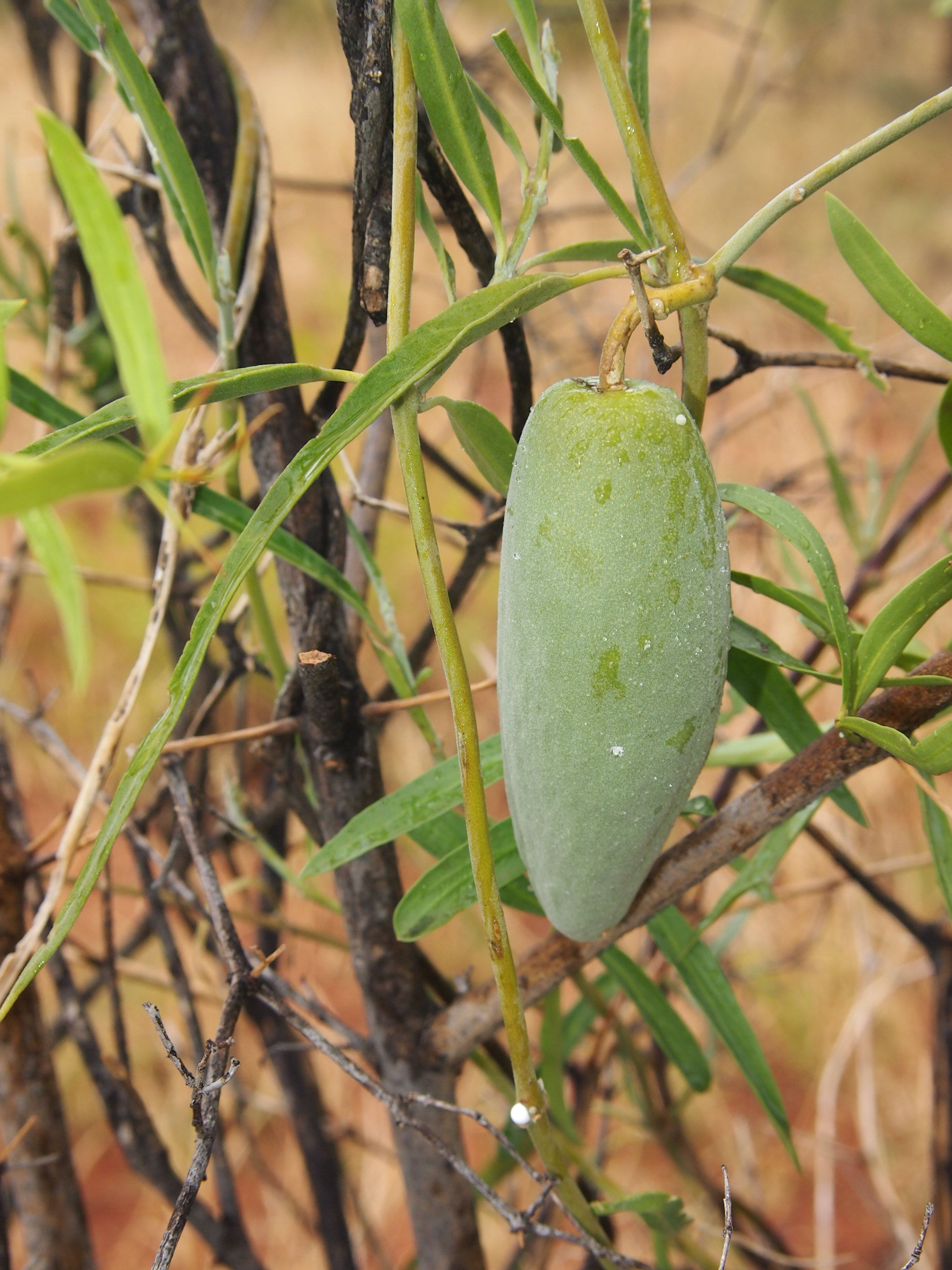 Marsdenia australis fruit